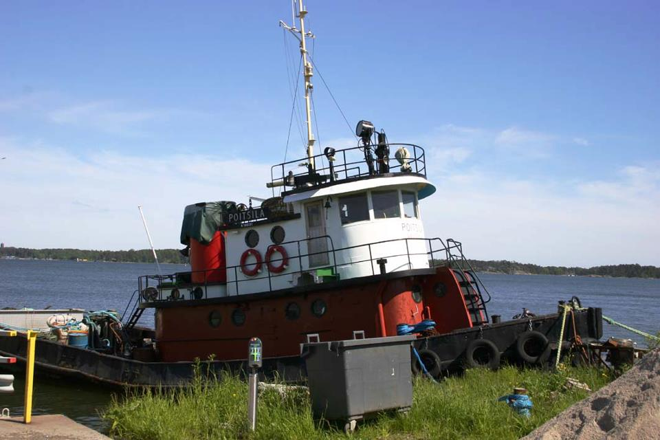 ex tug boat Dr17, nowadays POITSILA